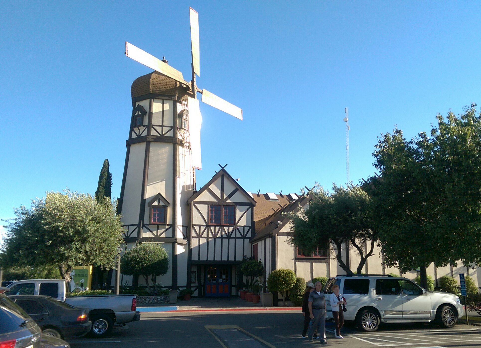 Photo by Jim Heaphy